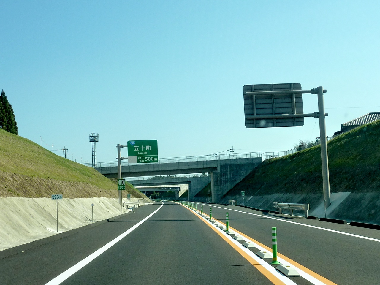 Miyakonojo - Shibushi Road (Hiratsuka-cho, Miyakonojo City, Miyazaki Prefecture, Japan)